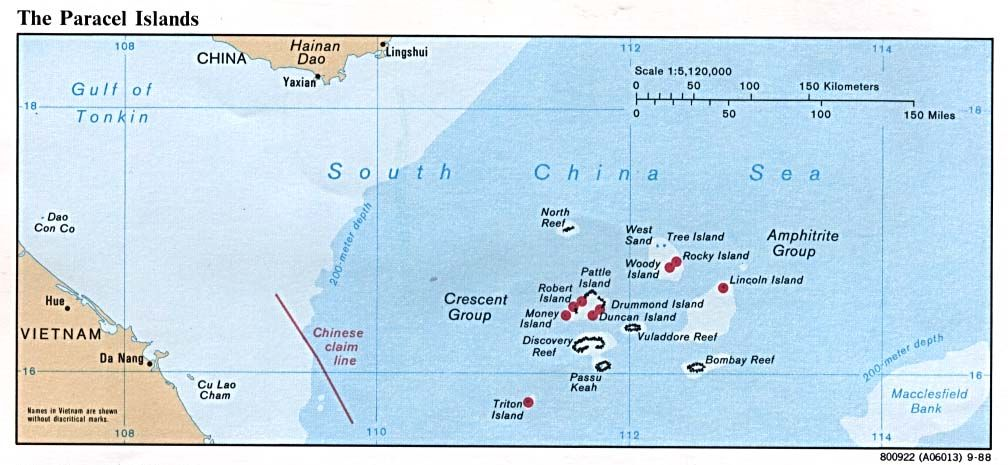 CIA map of the Paracel Islands (1988)